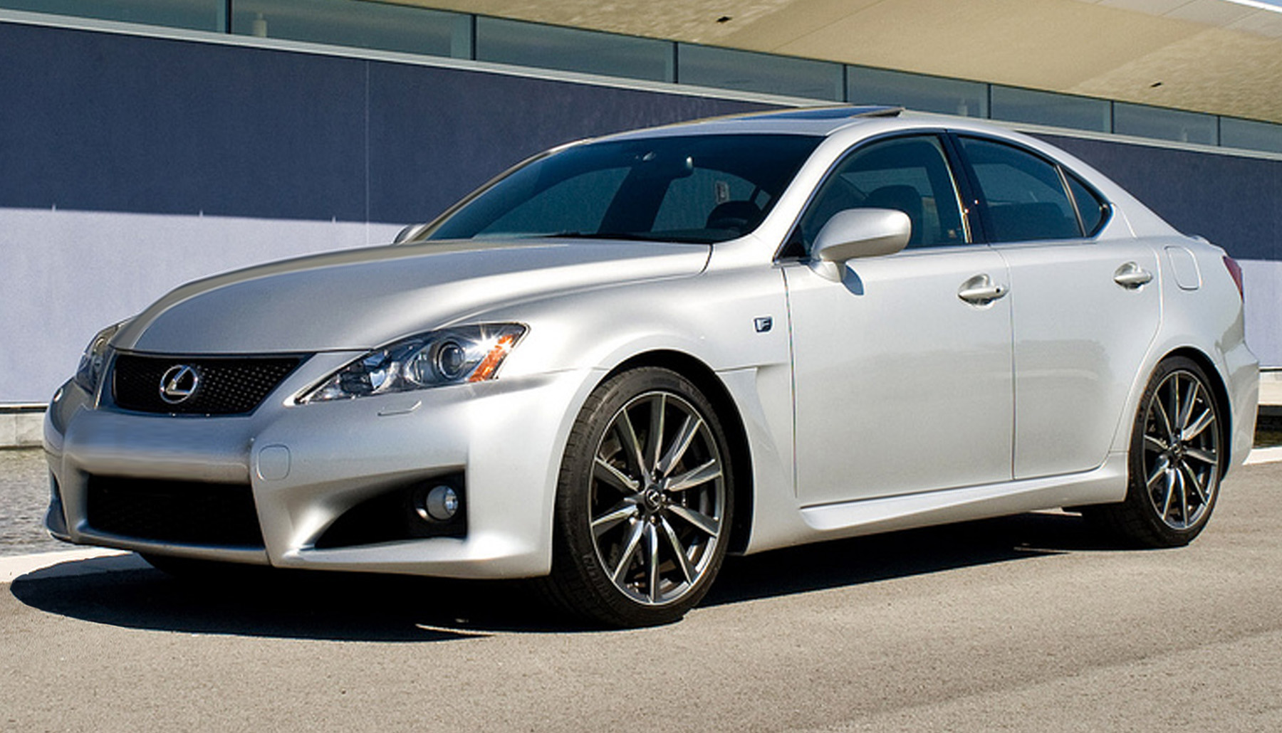 For Wikipedia.